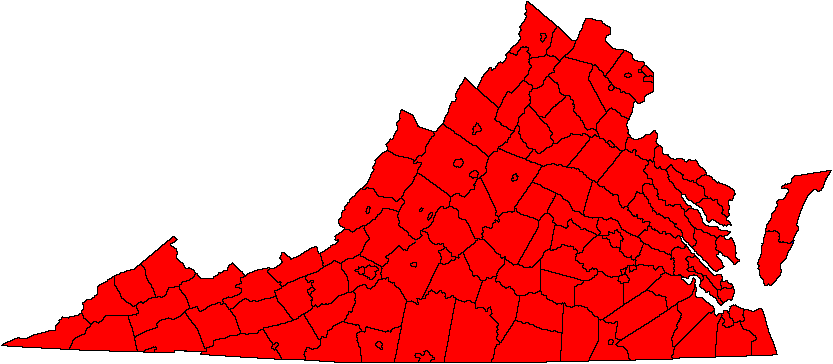 Map showing county choices of the 2002 Senate election in Virginia, between Republican John Warner and Independents Nancy Spannaus and Jacob Hornberger